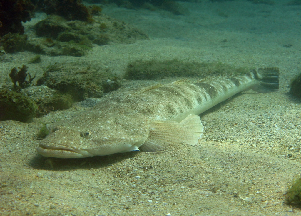 A Dusky Flathead (Platycephalus fuscus). Fairy Bower, Manly, NSW